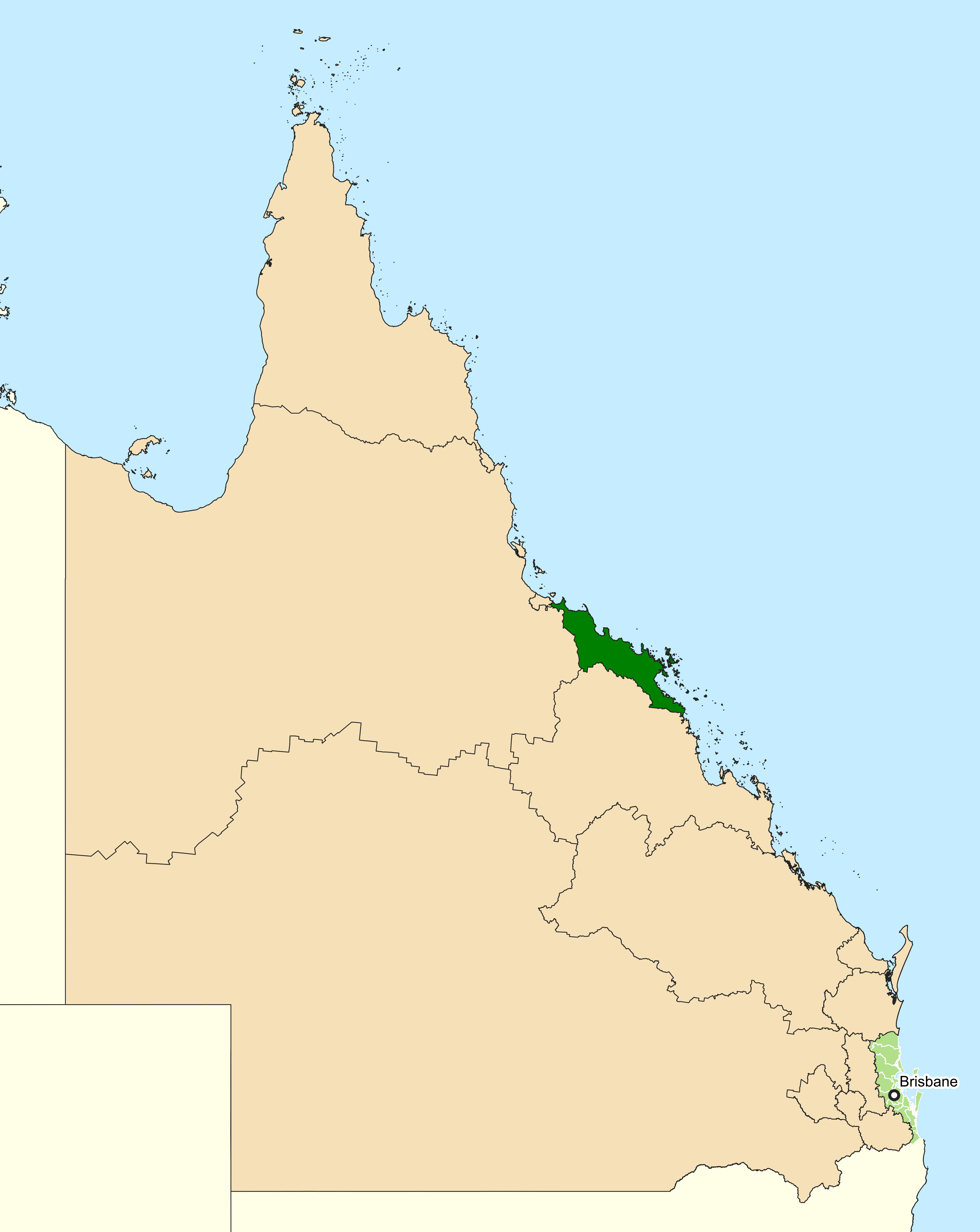 Location of the Australian federal electoral division of Dawson (dark green) in Queensland as of the 2019 Australian federal election. Incorporates or developed using Administrative Boundaries ©PSMA Australia Limited licensed by the Commonwealth of Australia under Creative Commons Attribution 4.0 International licence (CC BY 4.0).